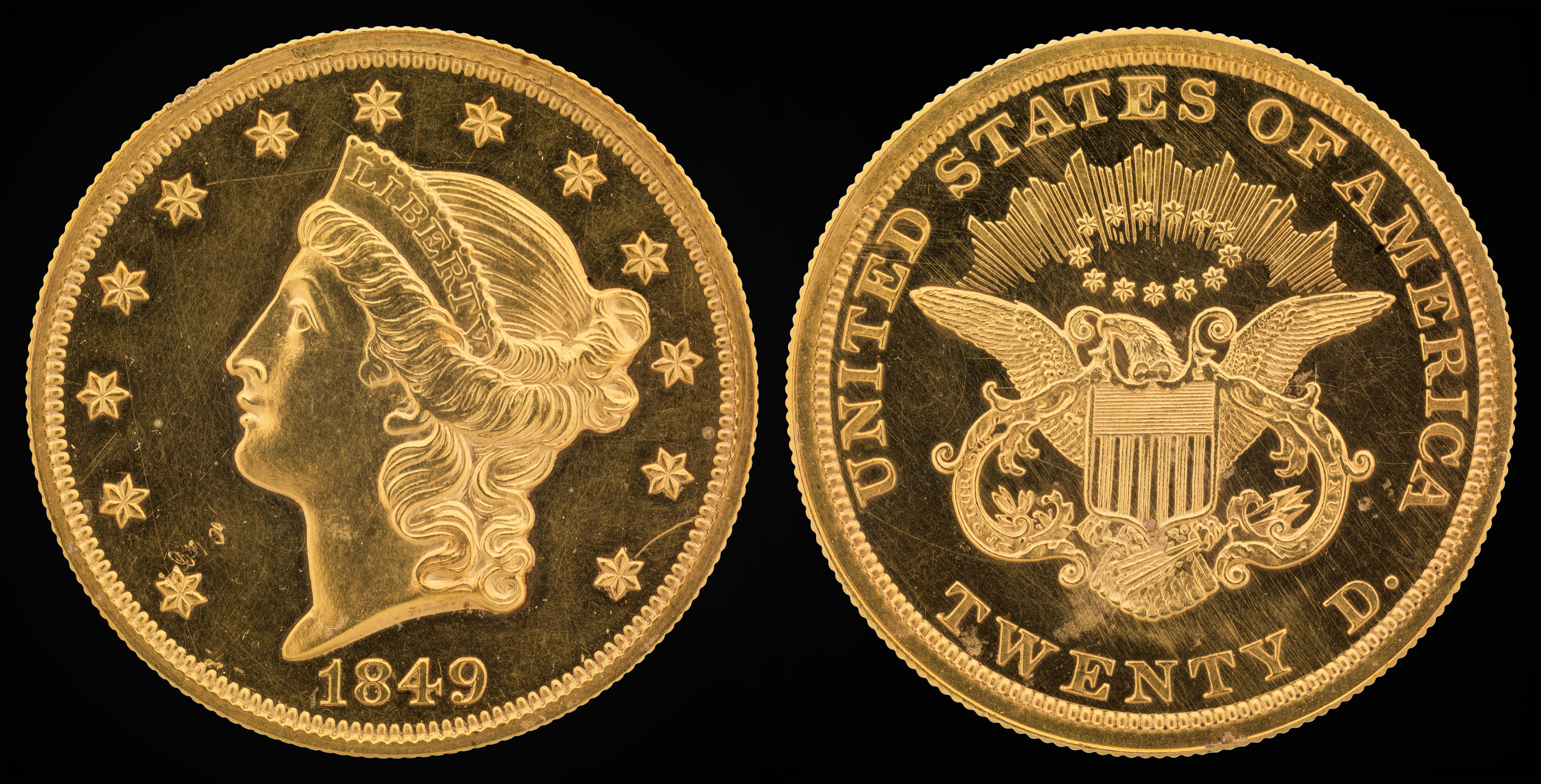 The 1849 G$20 Liberty Head (Twenty D.)Gold (fineness 0.9000), 34mm, 33.436g, designed by James B. LongacreJN2015-5732-33